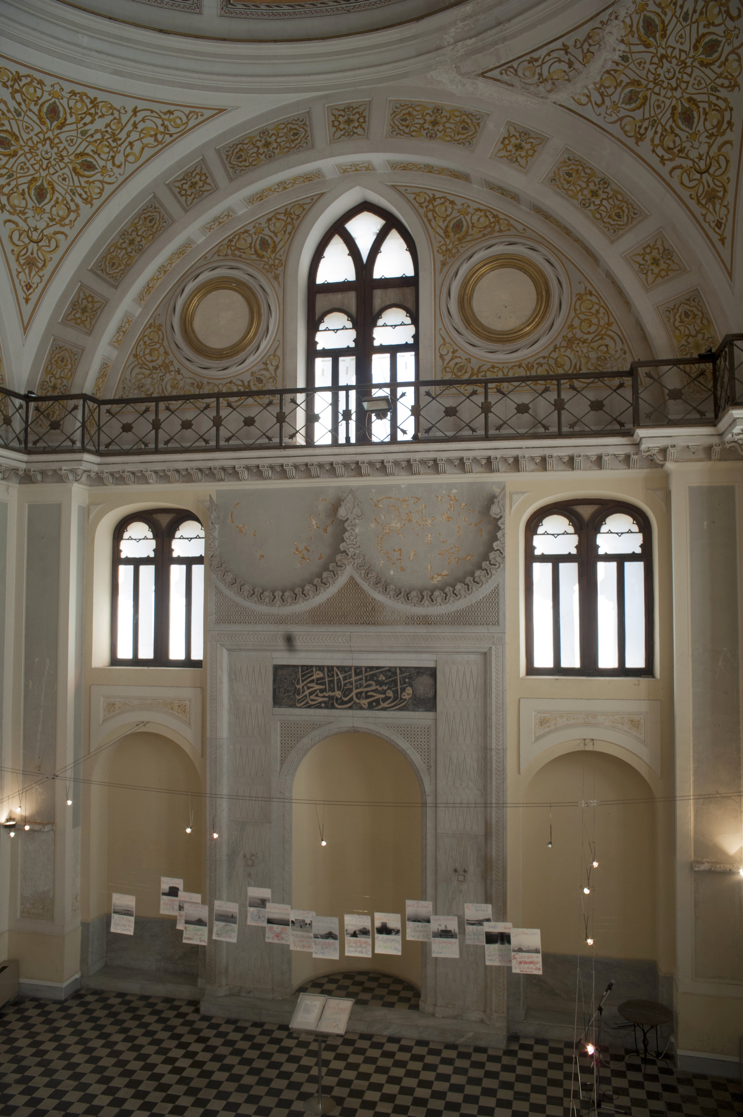 Interior of Yeni Mosque (mihrab), Thessaloniki, Greece.